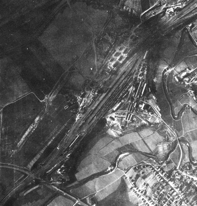 Moscow (Russia) .